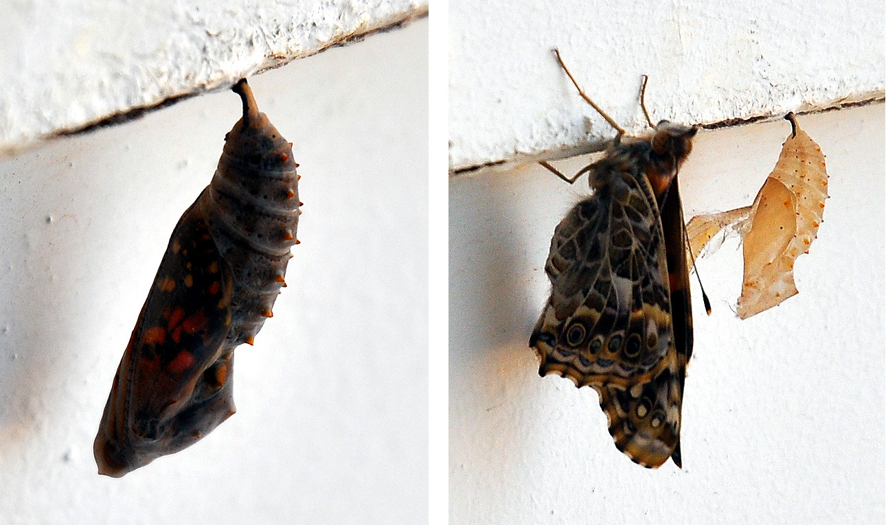 Painted lady (Vanessa cardui): chrysalis one hour before emergence, and imago one minute after emergence.